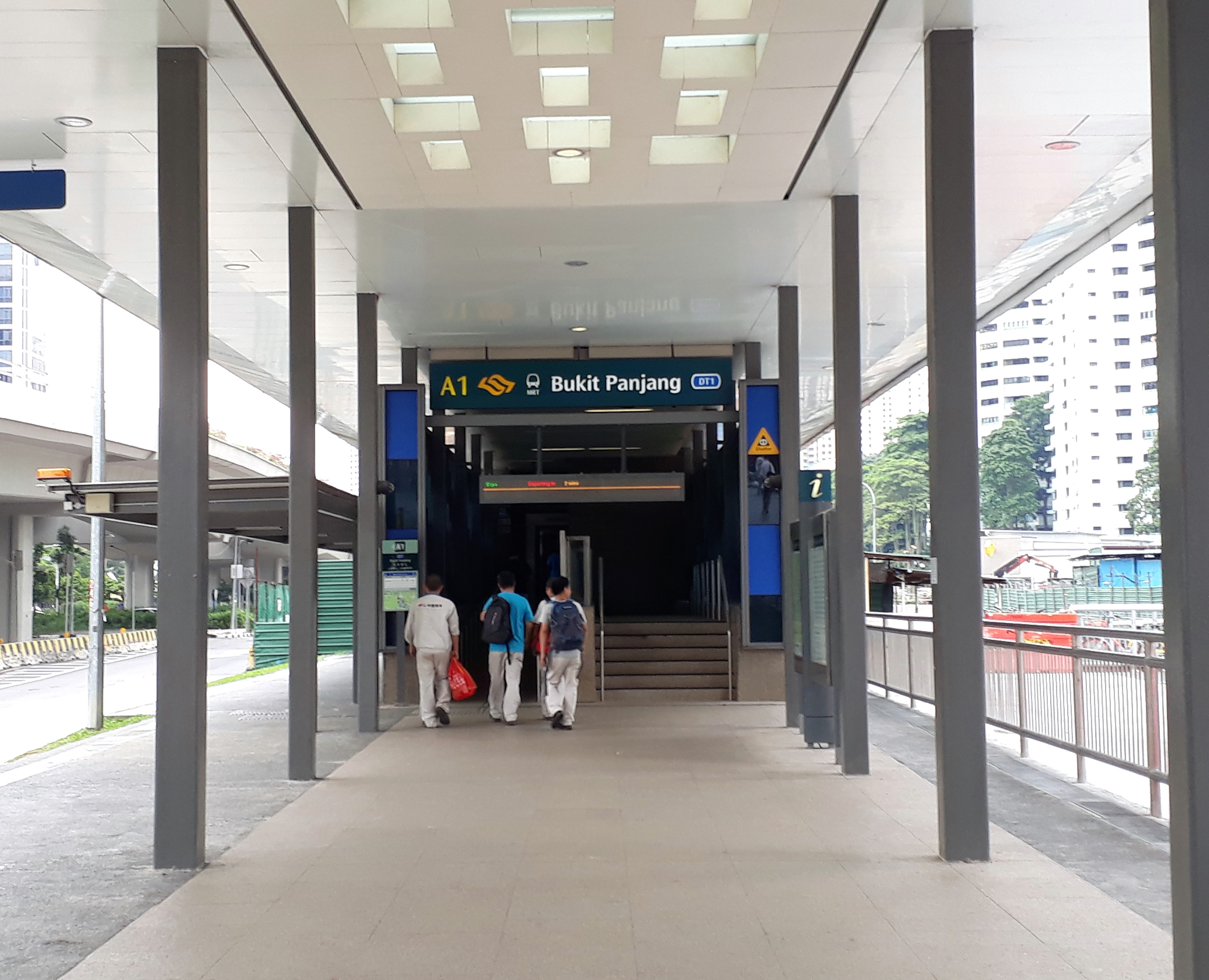 Bukit Panjang MRT Exit A1